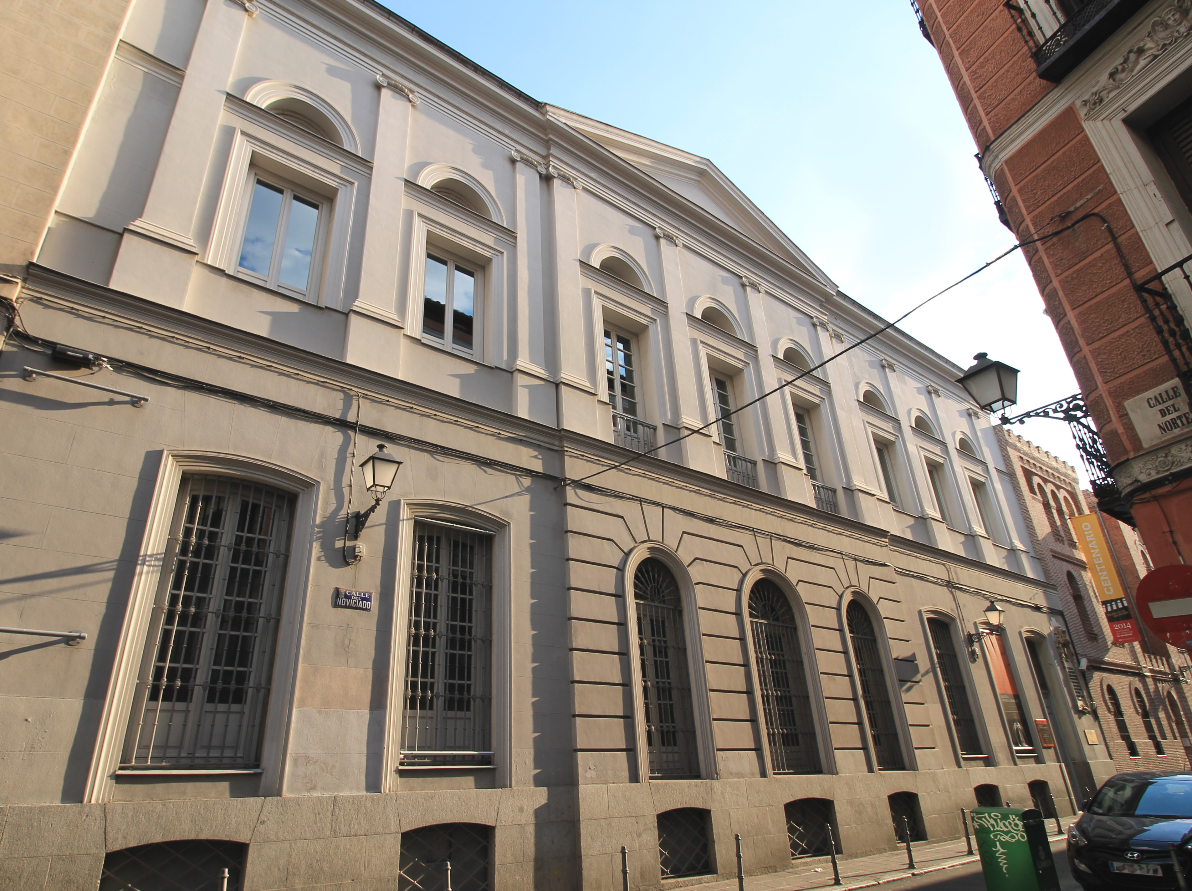 Façade of Biblioteca Histórica Marqués de Valdecilla (a historical library) at 3rd Calle del Noviciado (street) in Madrid (Spain). Designed by Francisco Javier de Luque López and completed in 1928 as a pavilion of Caserón de San Bernardo (home of the former Central University).